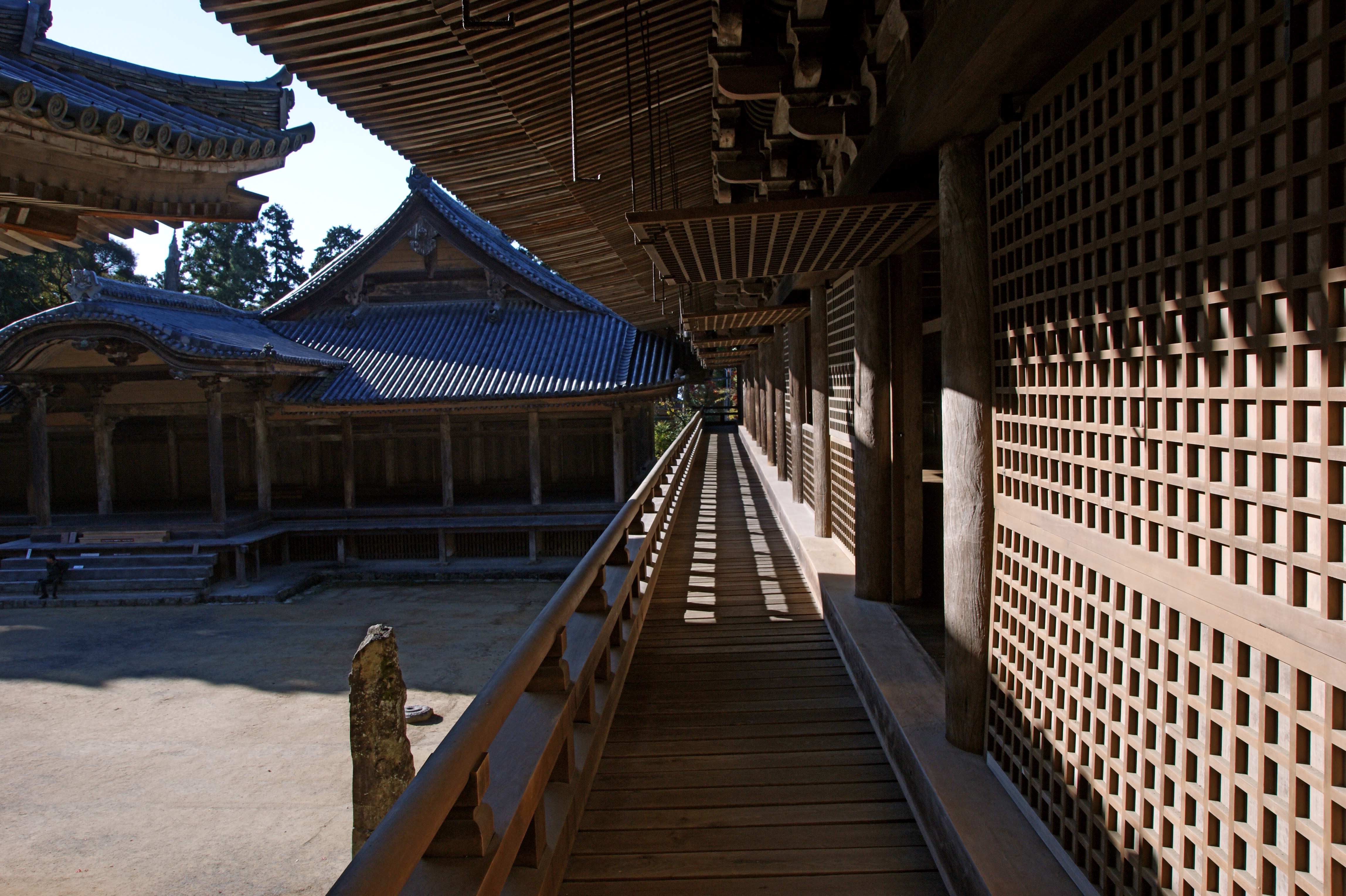 Engyoji, Himeji, Hyogo prefecture, Japan